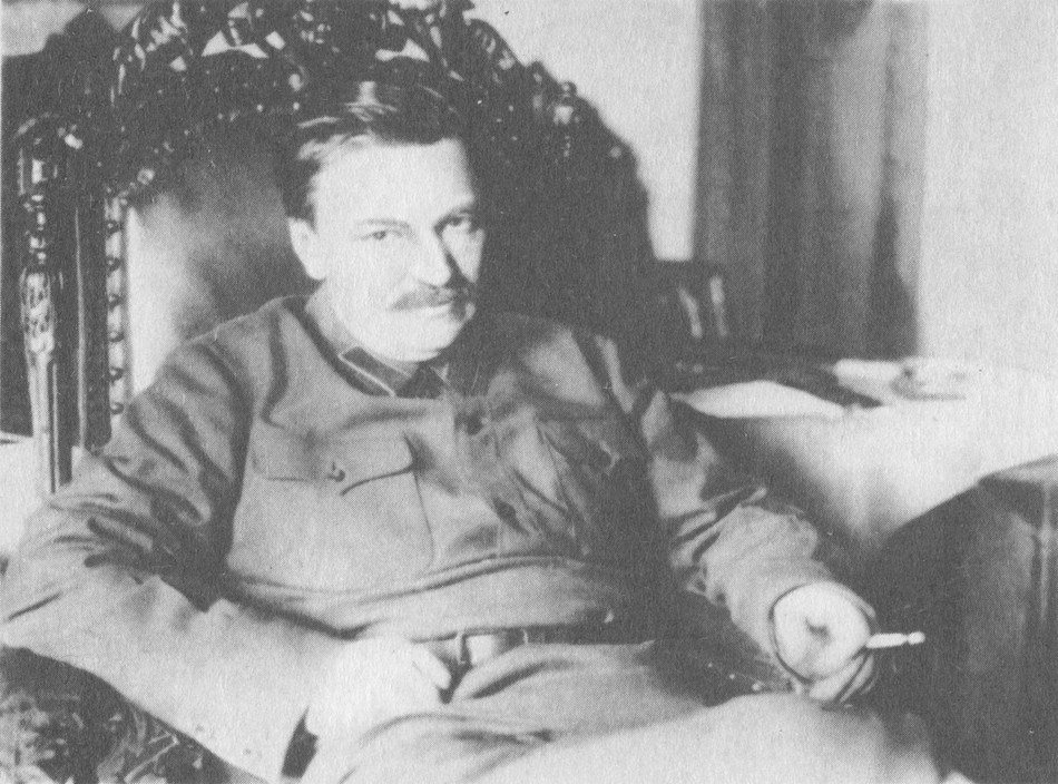 Russian revolutionary Vyacheslav Menzhinsky (1874—1934)